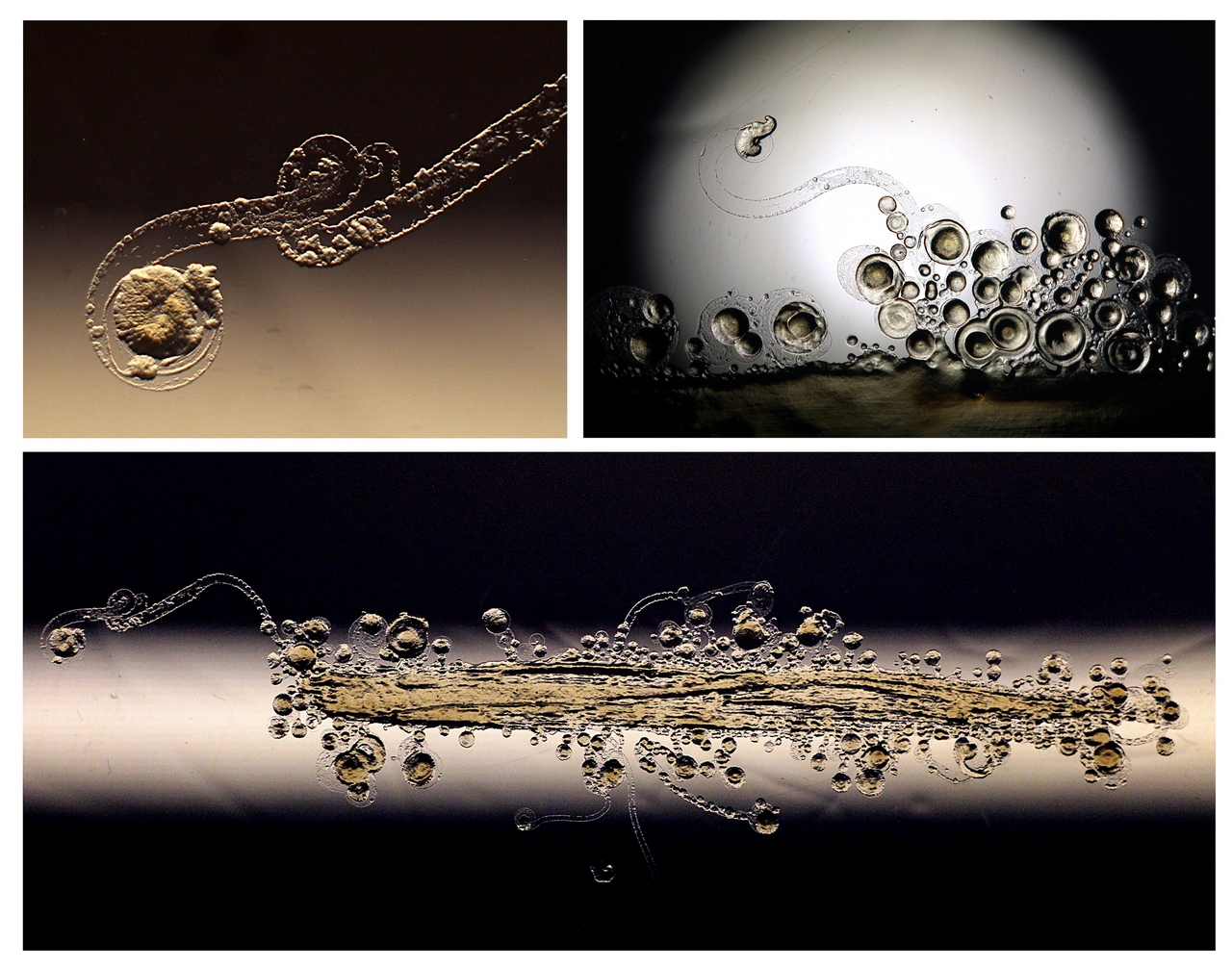 Cytophaga spp. - Gram-negative soil, "crawling" bacteria.